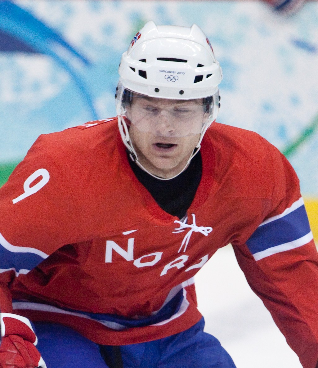 Marius Holtet of Norway during the 2010 Winter Olympics